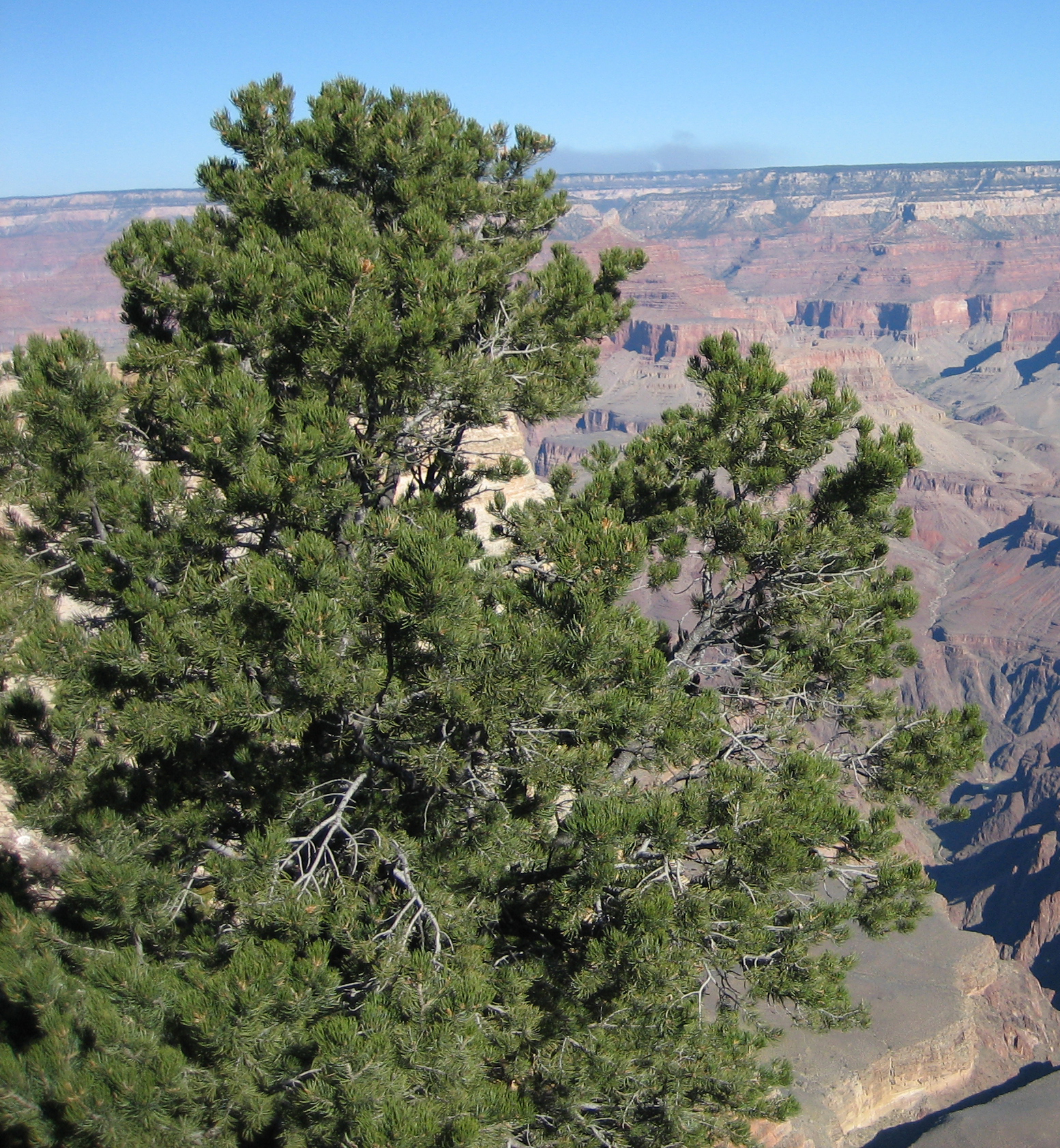 Pinus edulis, Grand Canyon South Rim, Arizona